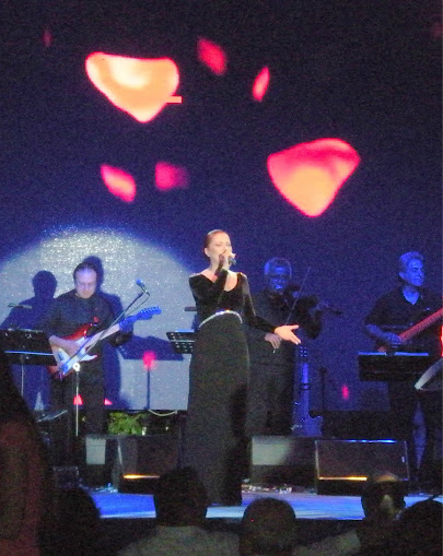 Candan Erçetin live concert performans picture, 21 June 2012.